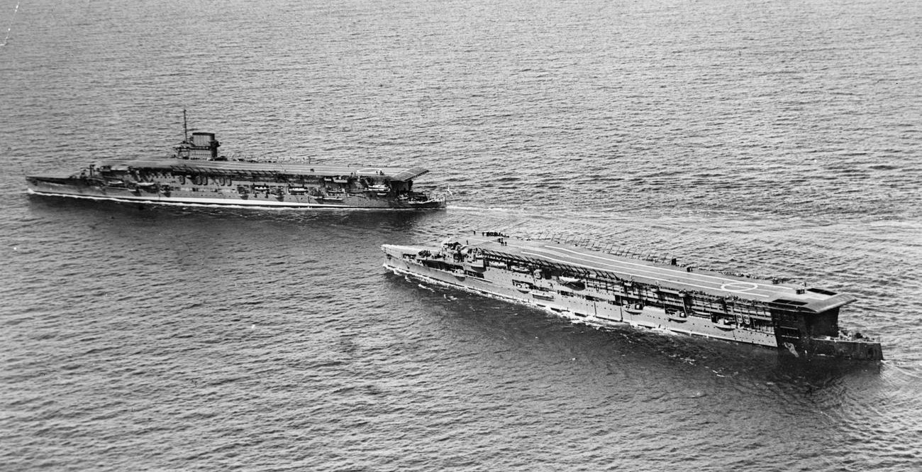 HMS Furious and either HMS Courageous or HMS Glorious off Gibraltar